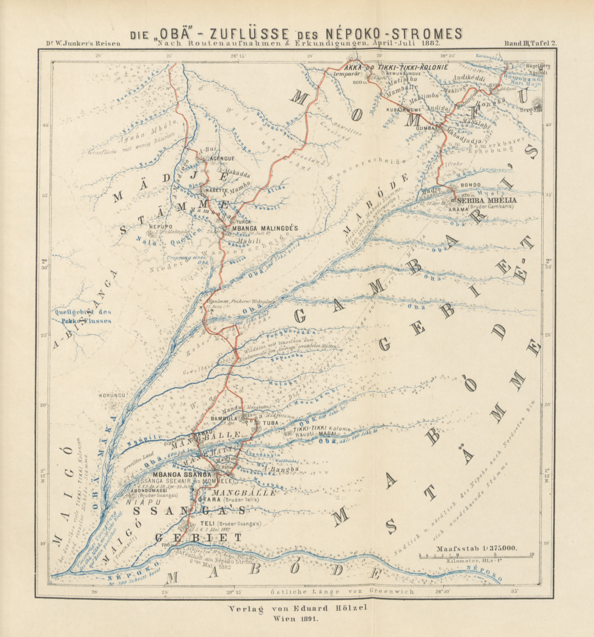 View this map on the BL Georeferencer service. Image taken from: Title: "Dr. Wilh. Junker's Reisen in Afrika 1875-1886. Nach seinen Tagebüchern unter der Mitwirkung von R. Buchta herausgegeben von dem Reisenden ... Mit ... Original-Illustrationen, etc" Author: JUNKER, Wilhelm. Contributor: Buchta, Richard. Shelfmark: "British Library HMNTS 10095.f.6." Volume: 03 Page: 103 Place of Publishing: Wien Date of Publishing: 1889 Issuance: monographic Identifier: 001913883 Explore: Find this item in the British Library catalogue, 'Explore'. Download the PDF for this book (volume: 03) Image found on book scan 103 (NB not necessarily a page number) Download the OCR-derived text for this volume: (plain text) or (json) Click here to see all the illustrations in this book and click here to browse other illustrations published in books in the same year. Order a higher quality version from here.